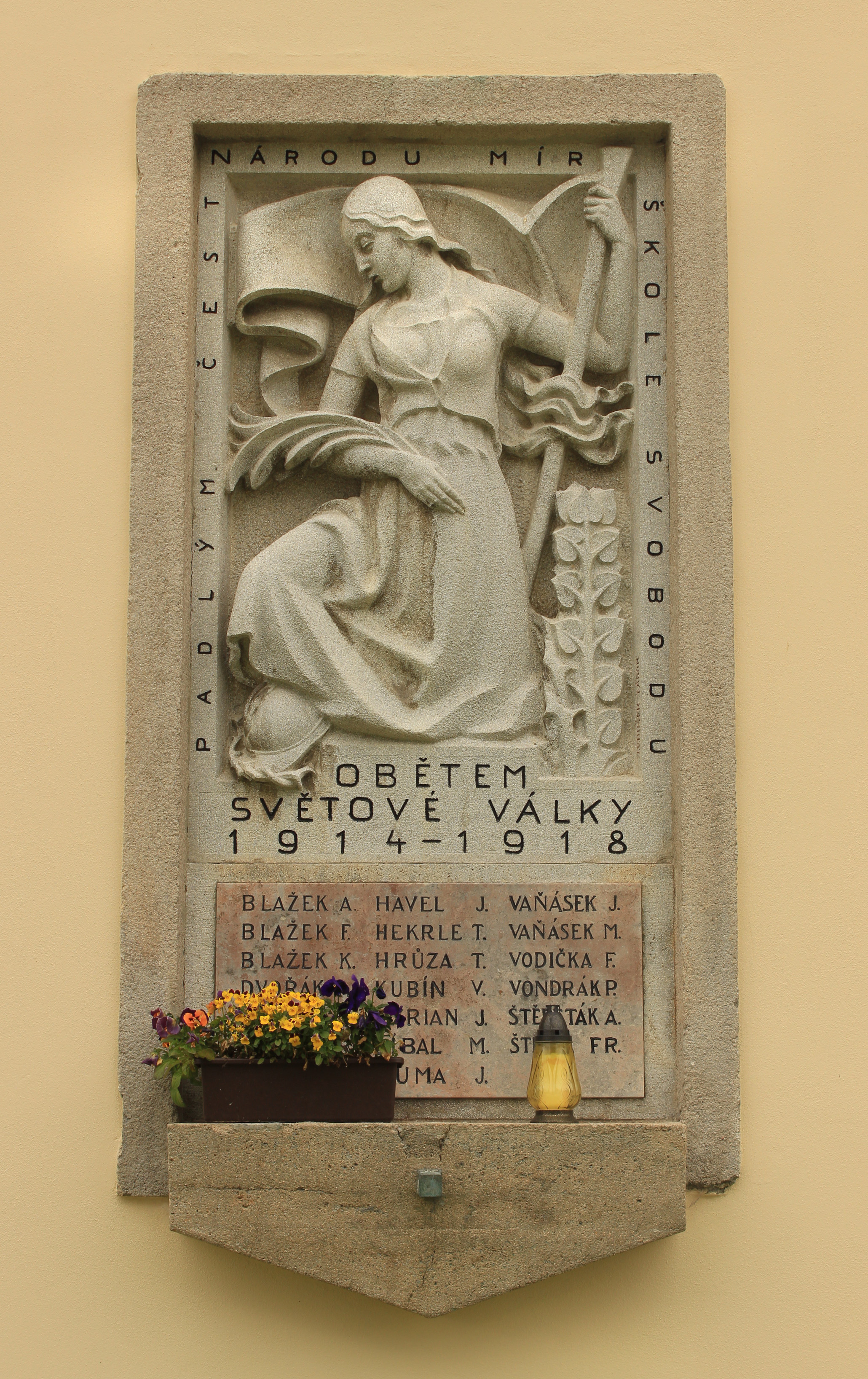 World War I memorial in Horní Radouň, Czech Republic.